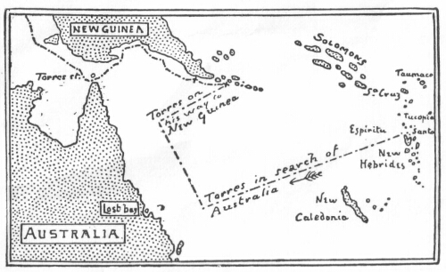 Map of the explorer's route in Australia. This image is of Australian origin and is now in the public domain because its term of copyright has expired. According to the Australian Copyright Council (ACC), ACC Information Sheet G023v16 (Duration of copyright) (Feb 2012). Type of materialCopyright has expired if ... A Photographs or other works published anonymously, under a pseudonym or the creator is unknown:taken or published prior to 1 January 1955 B Photographs (except A):taken prior to 1 January 1955 C Artistic works (except A & B):the creator died before 1 January 1955 D Published editions1 (except A & B):first published more than 25 years ago E Commonwealth or State government owned2 photographs and engravings:taken or published more than 50 years ago and prior to 1 May 1969 1 means the typographical arrangement and layout of a published work. eg. newsprint. 2owned means where a government is the copyright owner as well as would have owned copyright but reached some other agreement with the creator. When using this template, please provide information of where the image was first published and who created it.